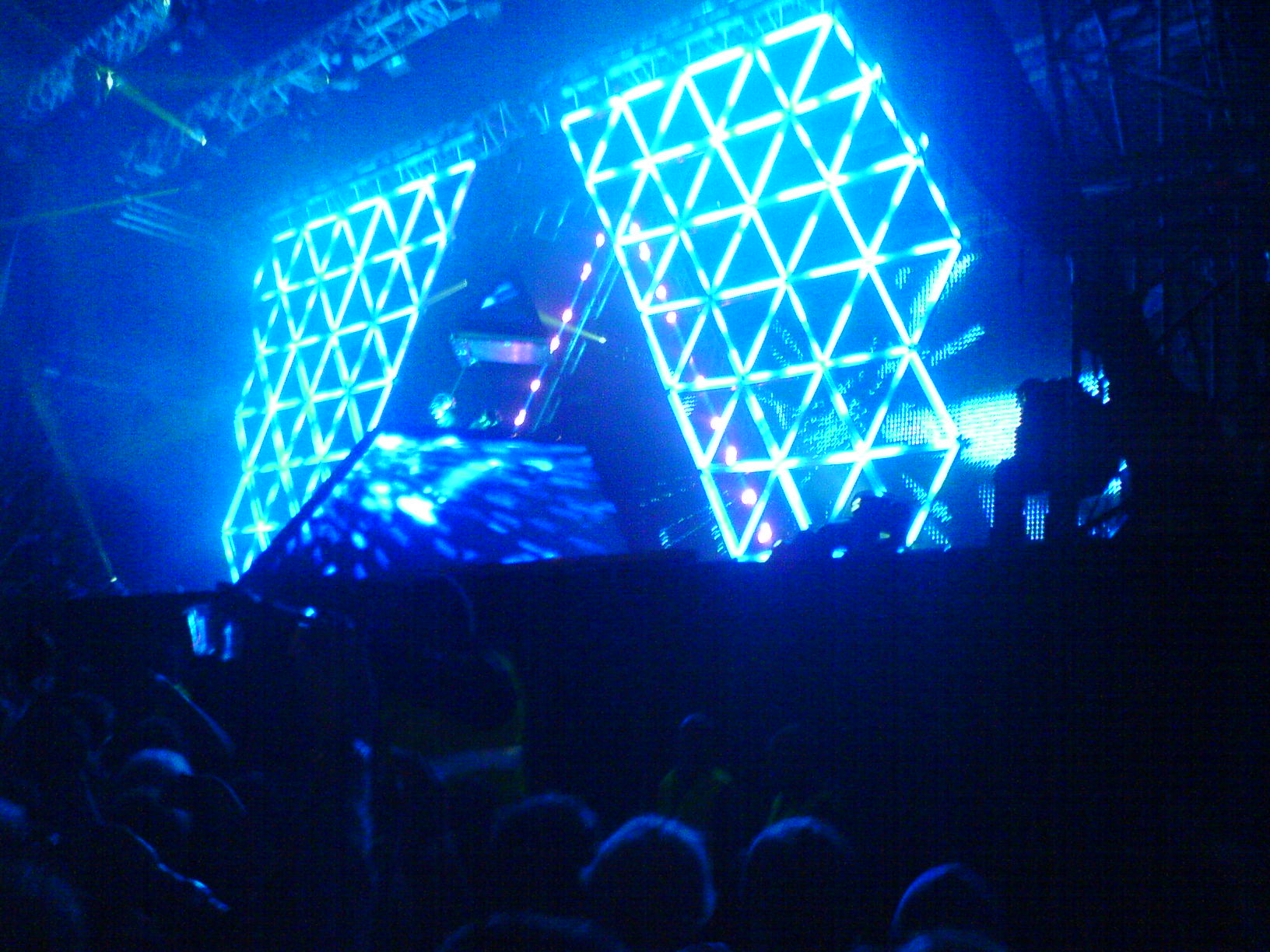 1337 Daft Punks went to this concert.